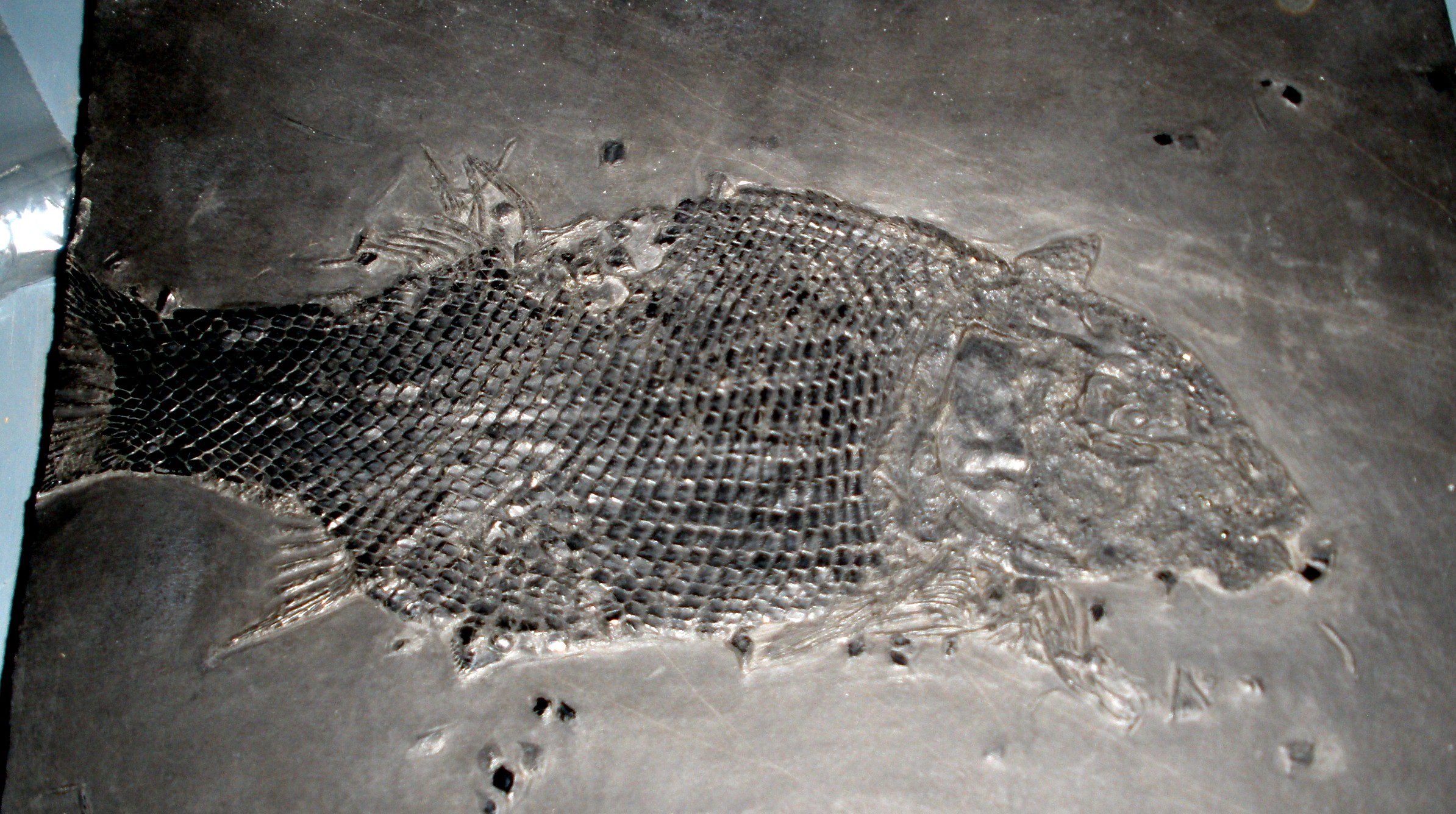 Fossil of Paralepidotus ornatus, an extinct bony fish Took the photo at Museo di Storia Naturale di Milano